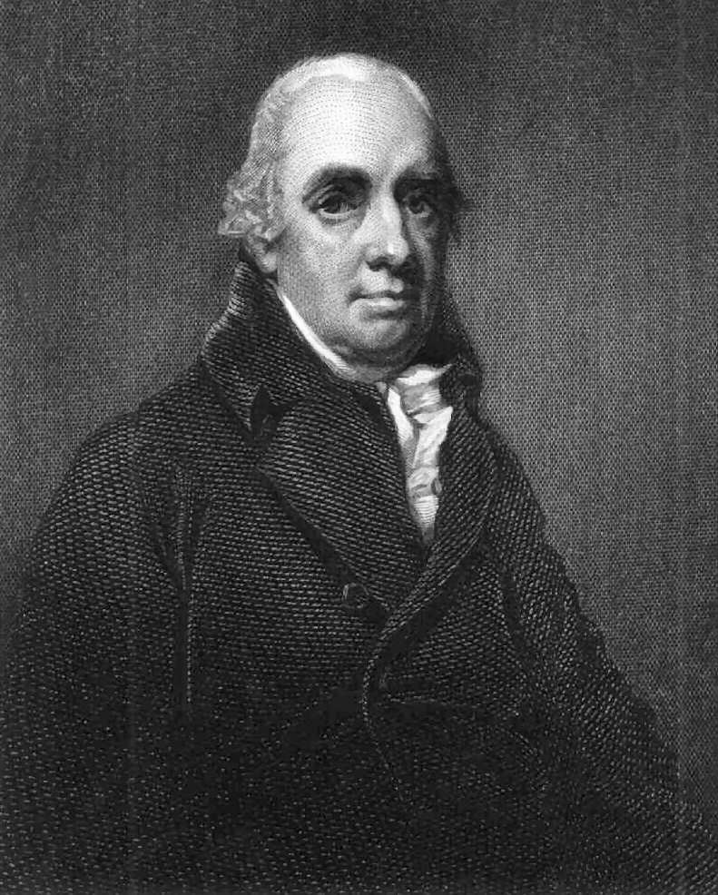 From here